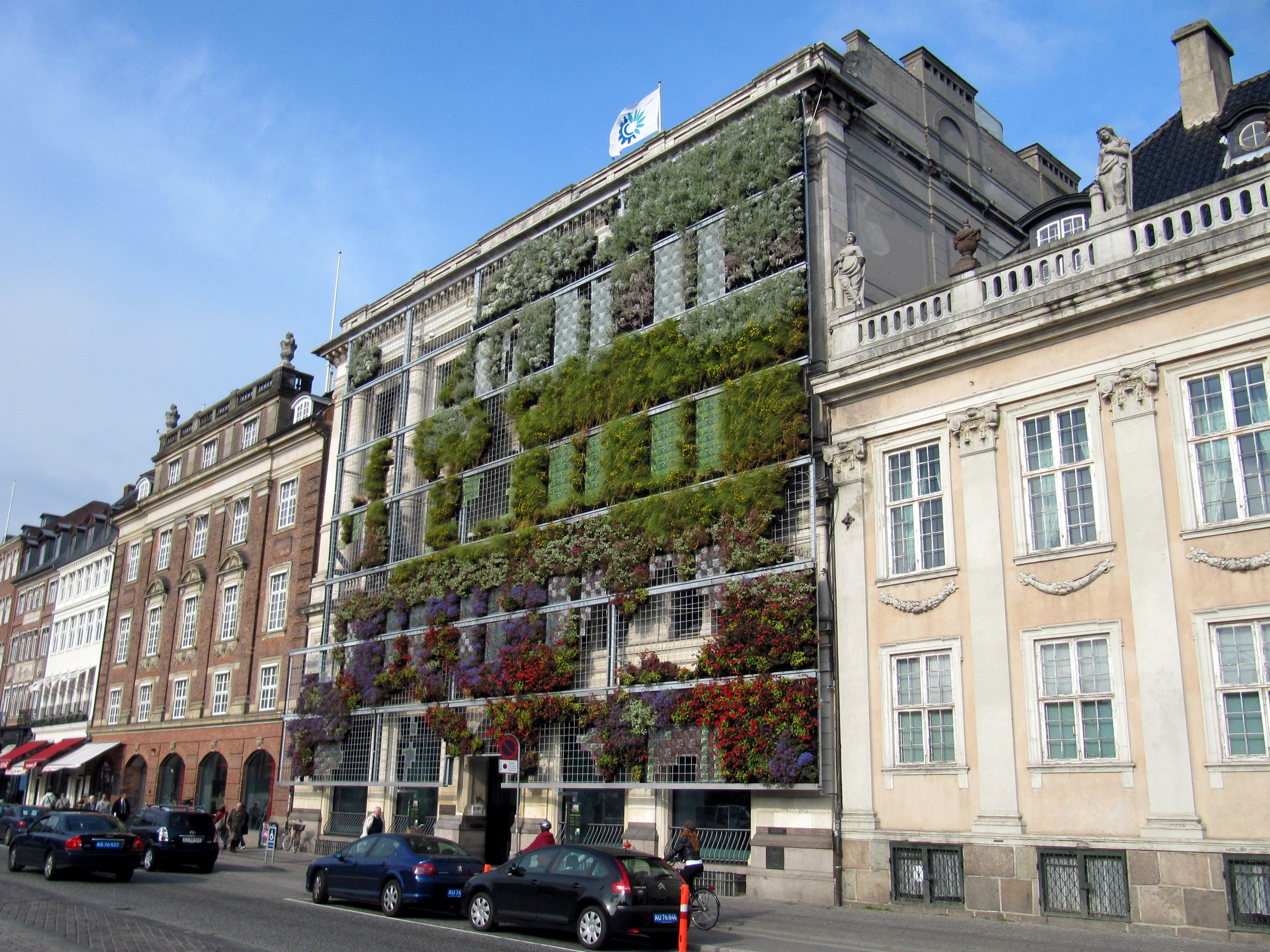 European Environment Agency on Kongens Nytorv in Copenhagen, Denmark.